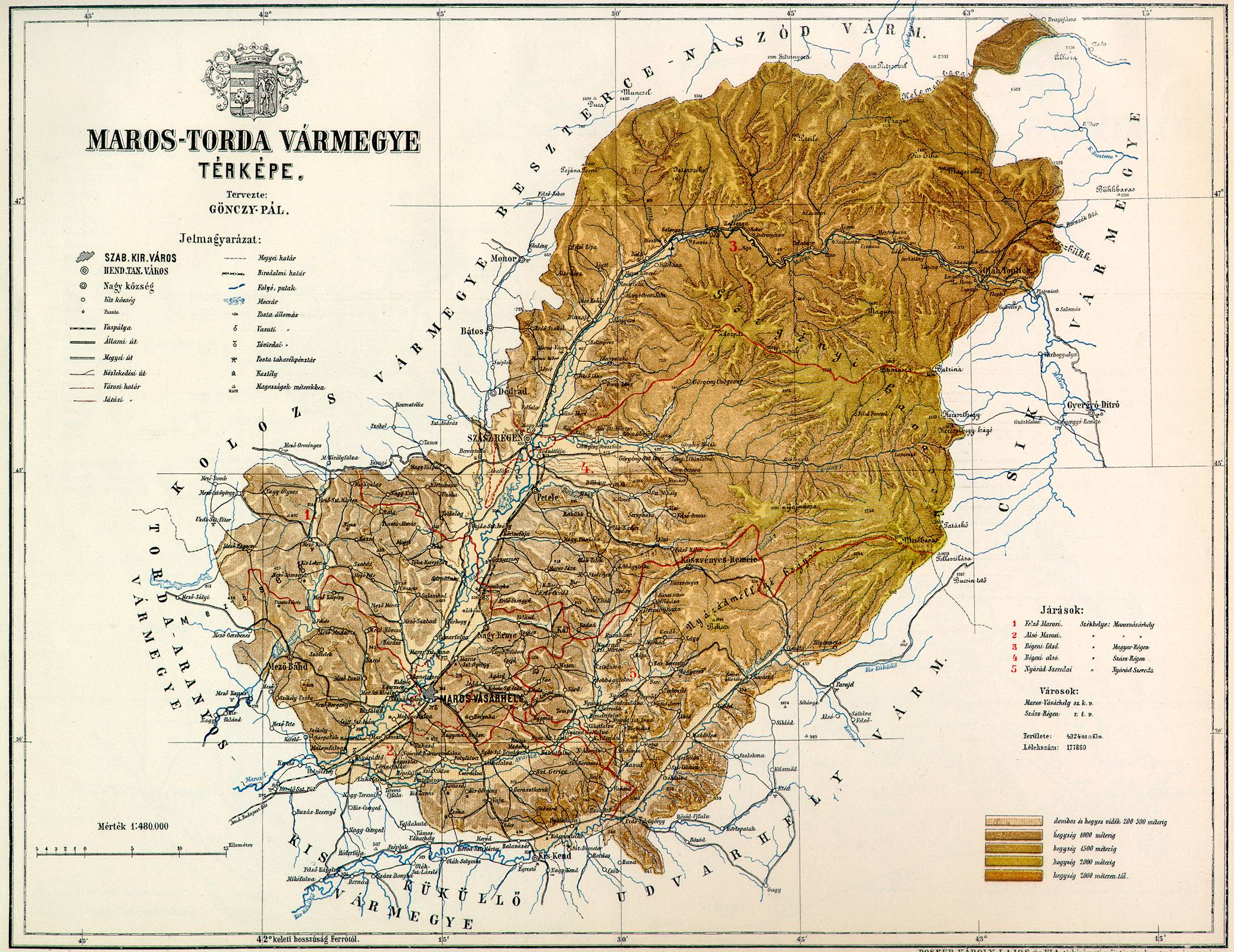 County of Maros-Torda in the pre-Trianon Kingdom of Hungary. Komitat Maros-Torda w Królestwie Węgier przed traktatem w Trianon.